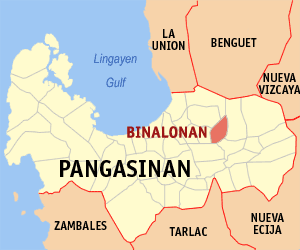 Map of Pangasinan showing the location of Binalonan